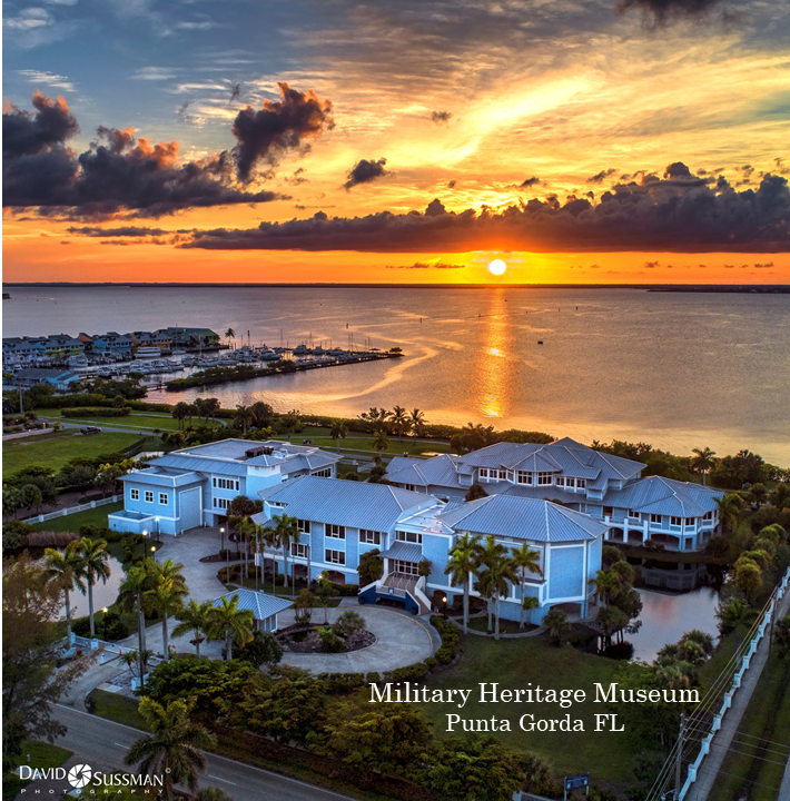 Re-opened in April 2019 to this new location at 900 West Marion Ave. Punta Gorda FL